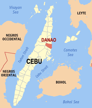 Map of Cebu showing the location of Danao